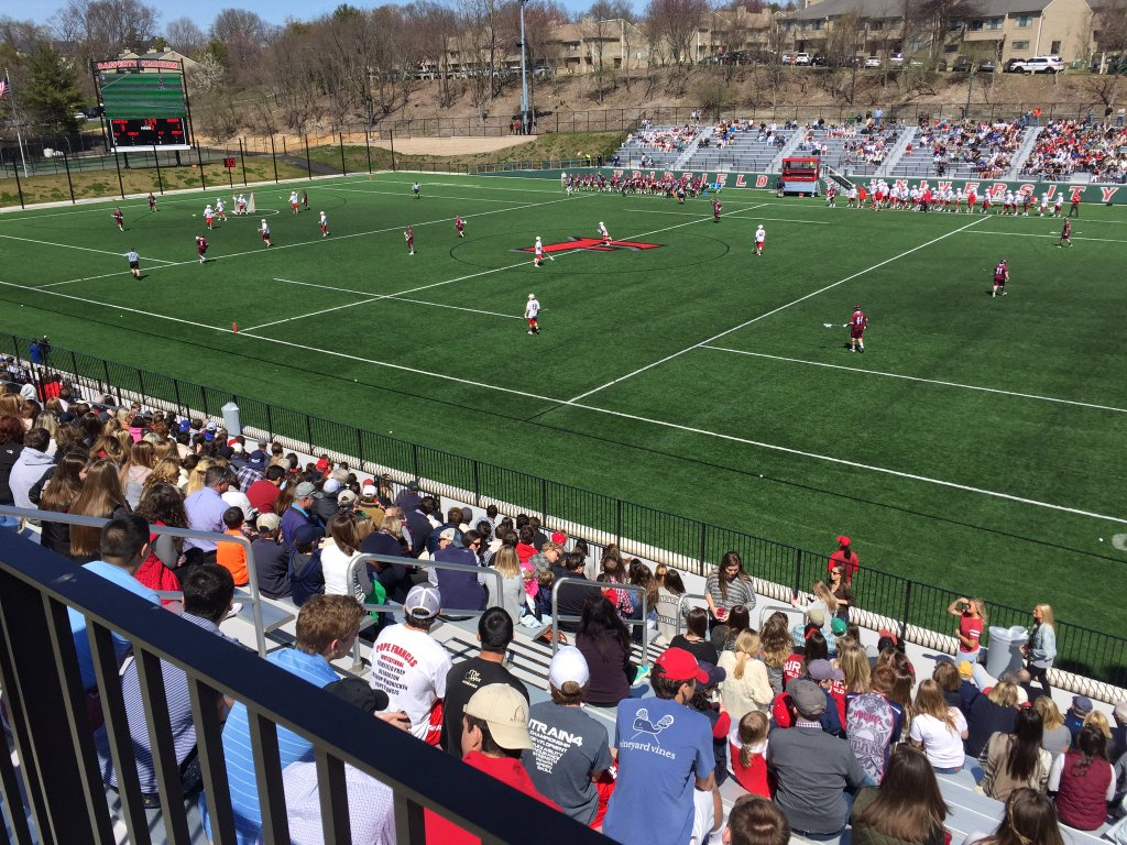 Fairfield Stags men's lacrosse game day at Rafferty Stadium at Fairfield University in Fairfield, Connecticut.